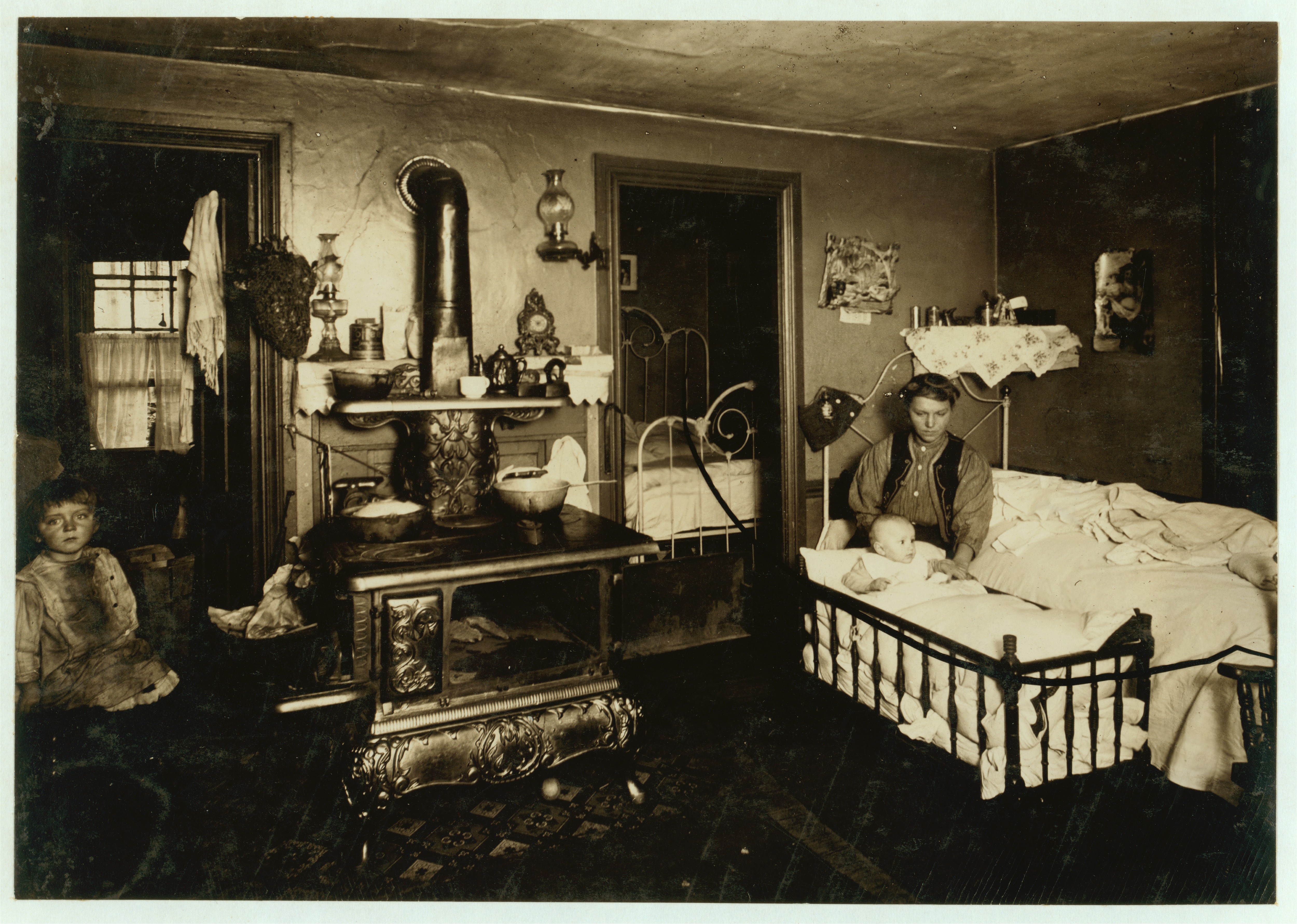 Orginal description: "(For Child Welfare Exhibit 1912-13.) Overcrowded home of workers in cotton mill, Olneyville, Providence. Eight persons live in these three small rooms, three of them are boarders. Inner bed-rooms are 9 x 8 feet, the largest room 12 x 12 feet. 23 Chaffee Street, Polish People. Property owned by the mill. Rent $4.50 a month. Location: Providence, Rhode Island." Title from NCLC caption card. In album: Mills.